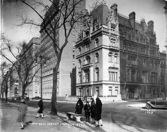 Photographed in 1929 by William Roege, this shows the uptown view of Fifth Ave in Manhattan